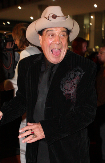 Molly Meldrum at the official launch of The Star casino.